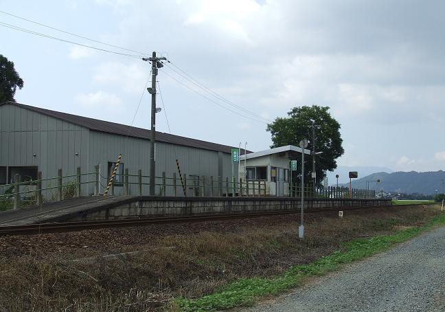 Rokujo Station on Etsumi-Hoku Line